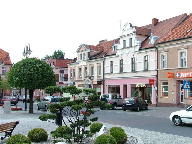 Pleszew - Old Square.